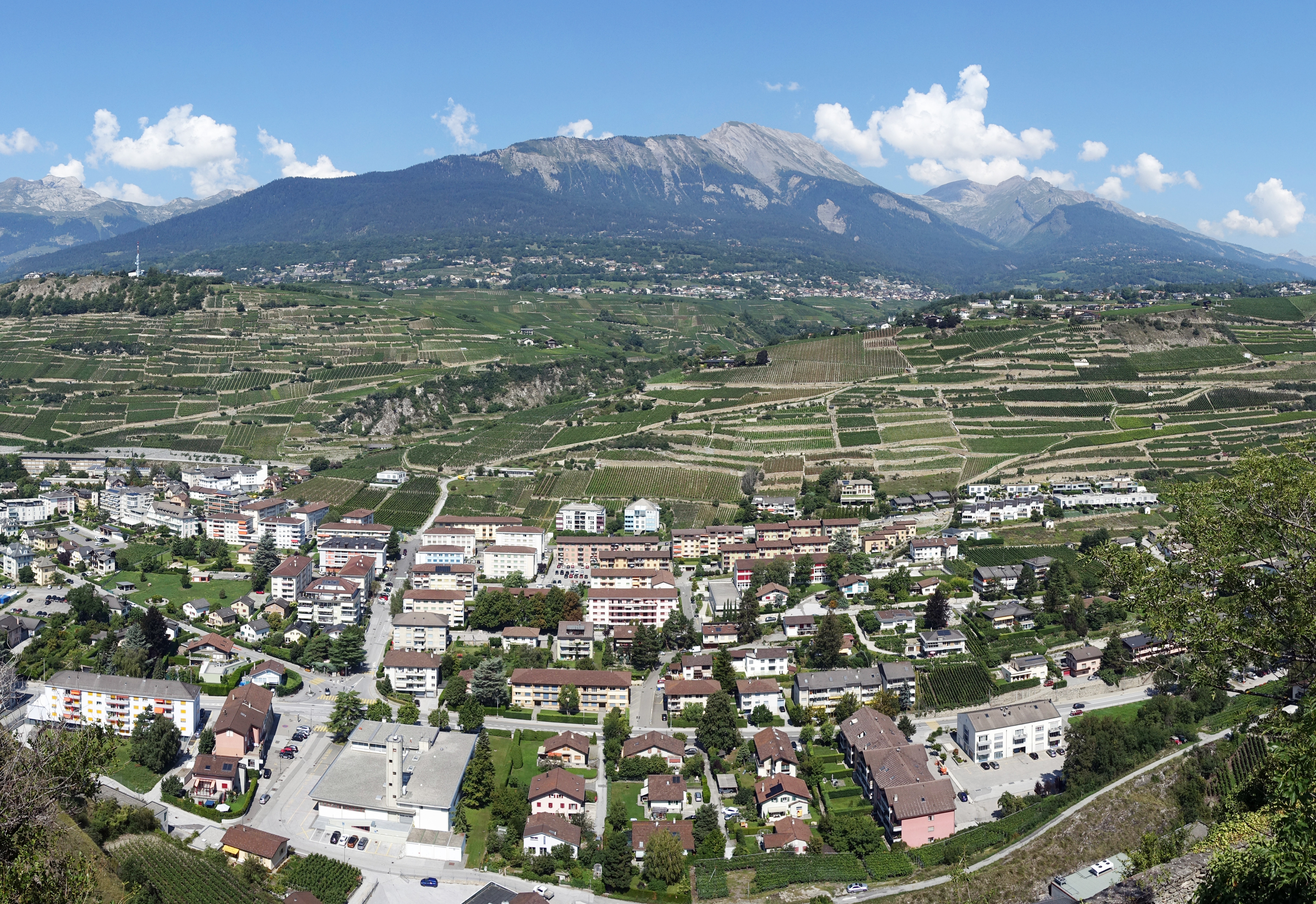 Sion, Switzerland.